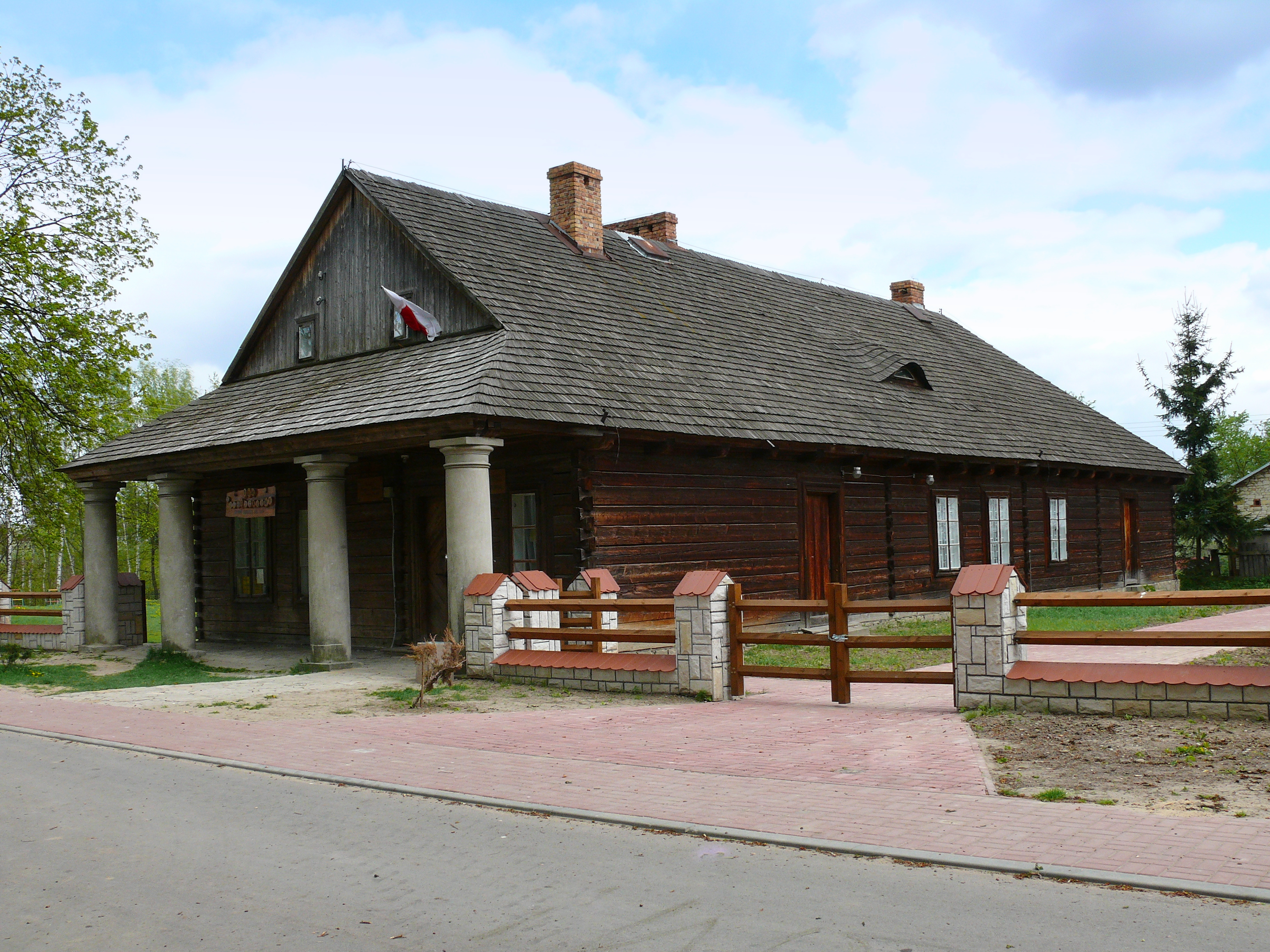 House with arcades in Solec nad Wisłą